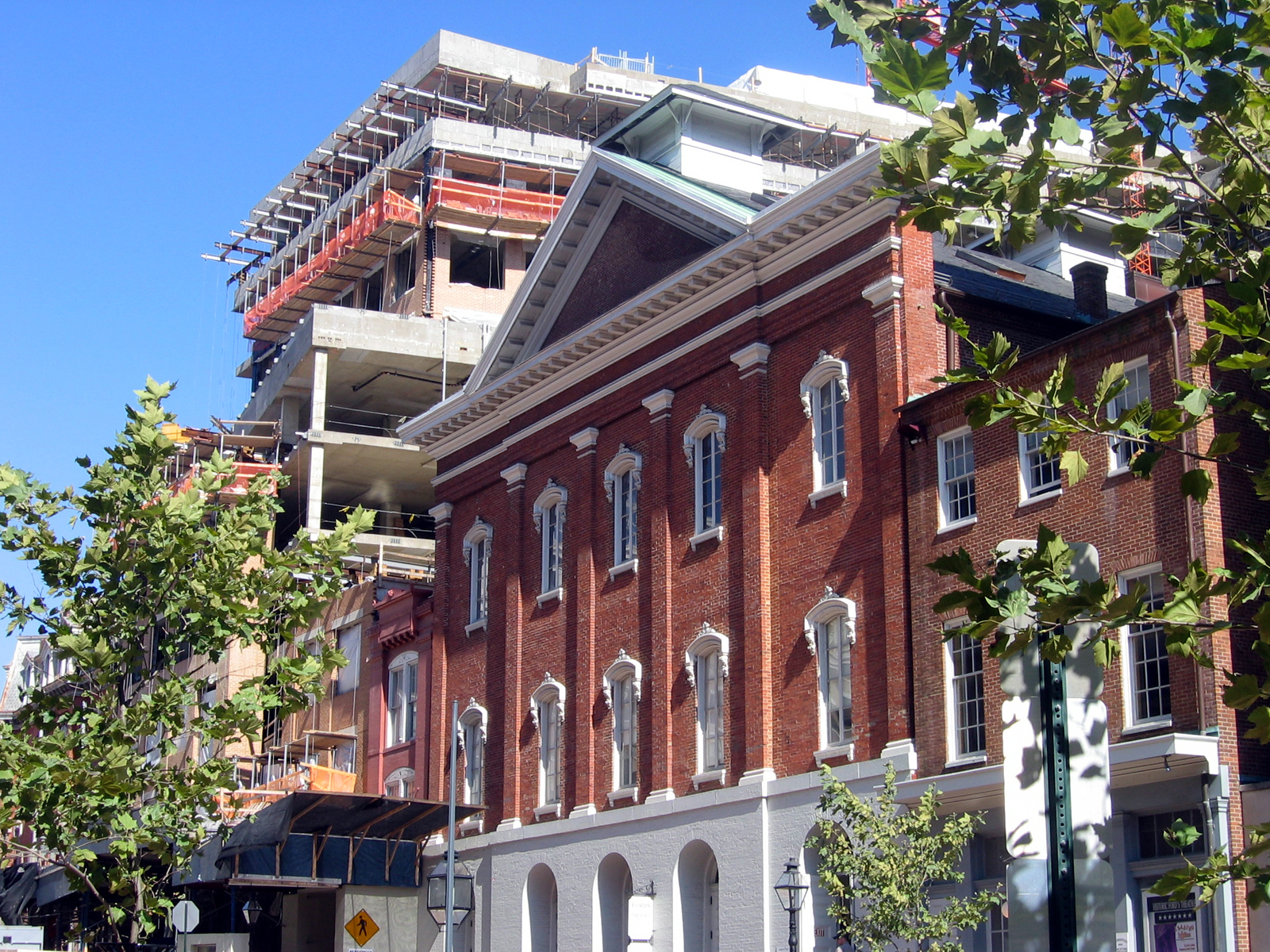 Ford's Theatre Taken by Kmf164 on October 15, 2005.